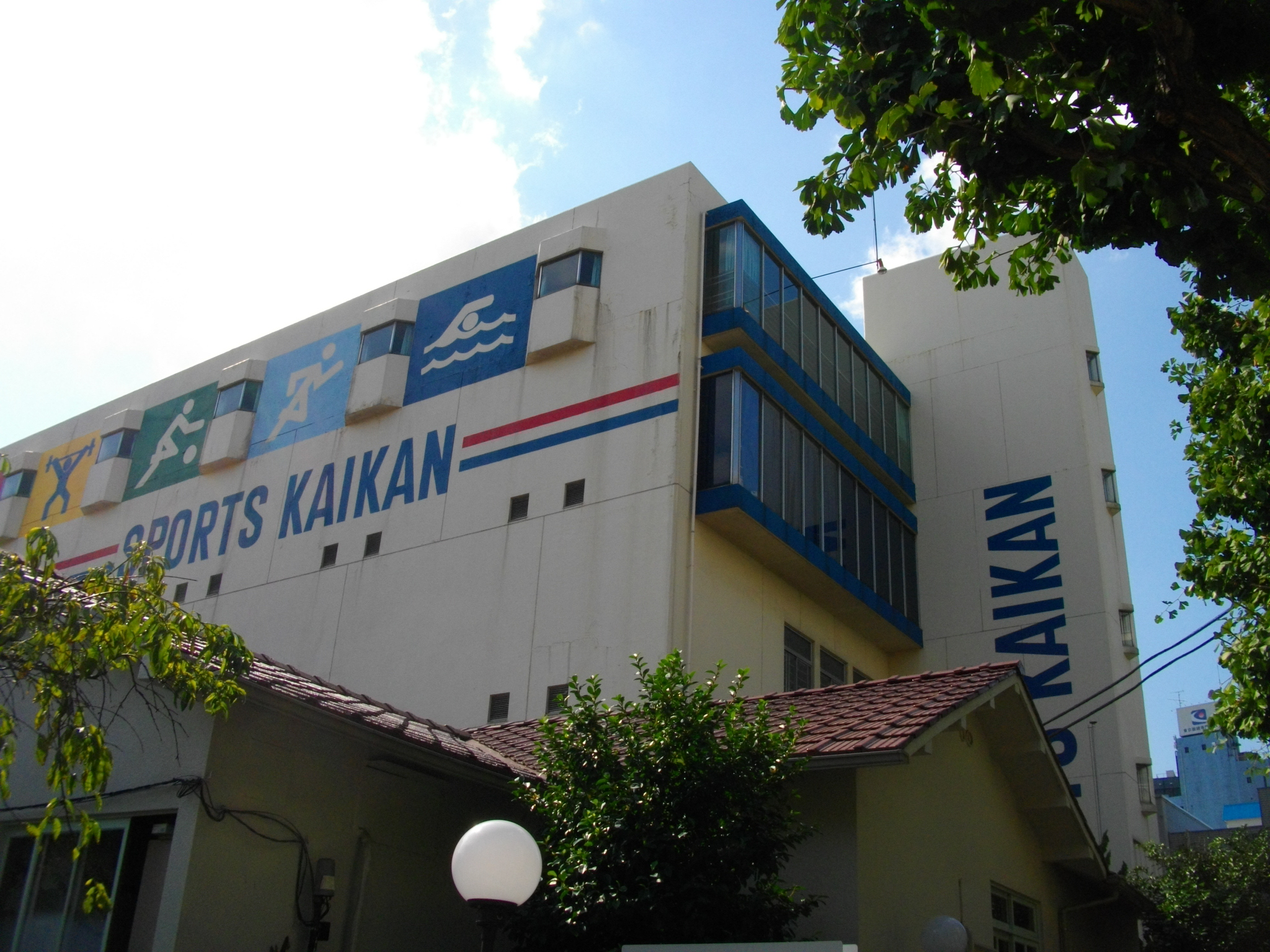 Sports Kaikan